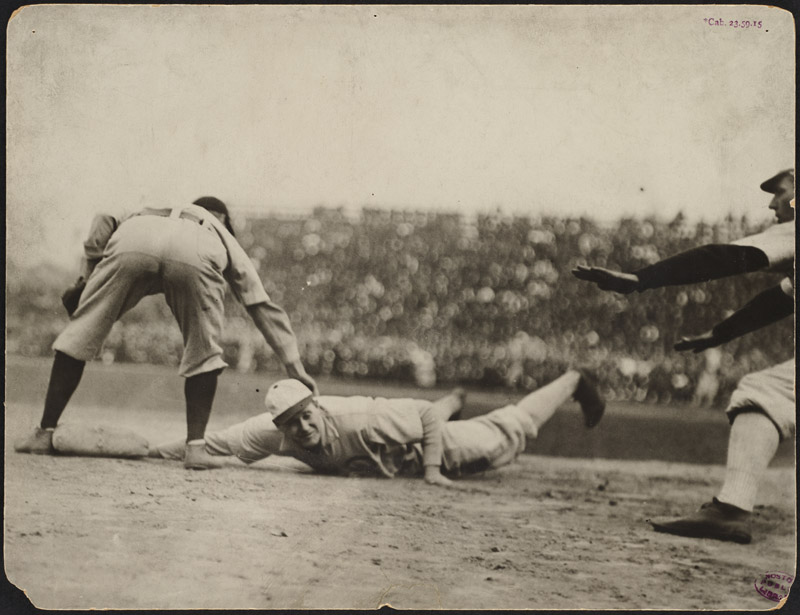 Accession No.: 06_06_000024 Title: Play at first, 1906 World Series Caption: World Series, Chicago Oct. 1906, Chance on first, Isbell sliding Creator: unidentified Date: 1906 Format: photograph Description: Frank Isbell of the Chicago White Sox safe at first on pick-off attempt, Frank Chance of the Chicago Cubs at first base. Taken at South Side Park. BPL Collection: McGreevey Collection BPL Department: Print Subject: Baseball--History World Series (Baseball) (1906) Chicago White Sox (Baseball team) Chicago Cubs (Baseball team) Baseball players